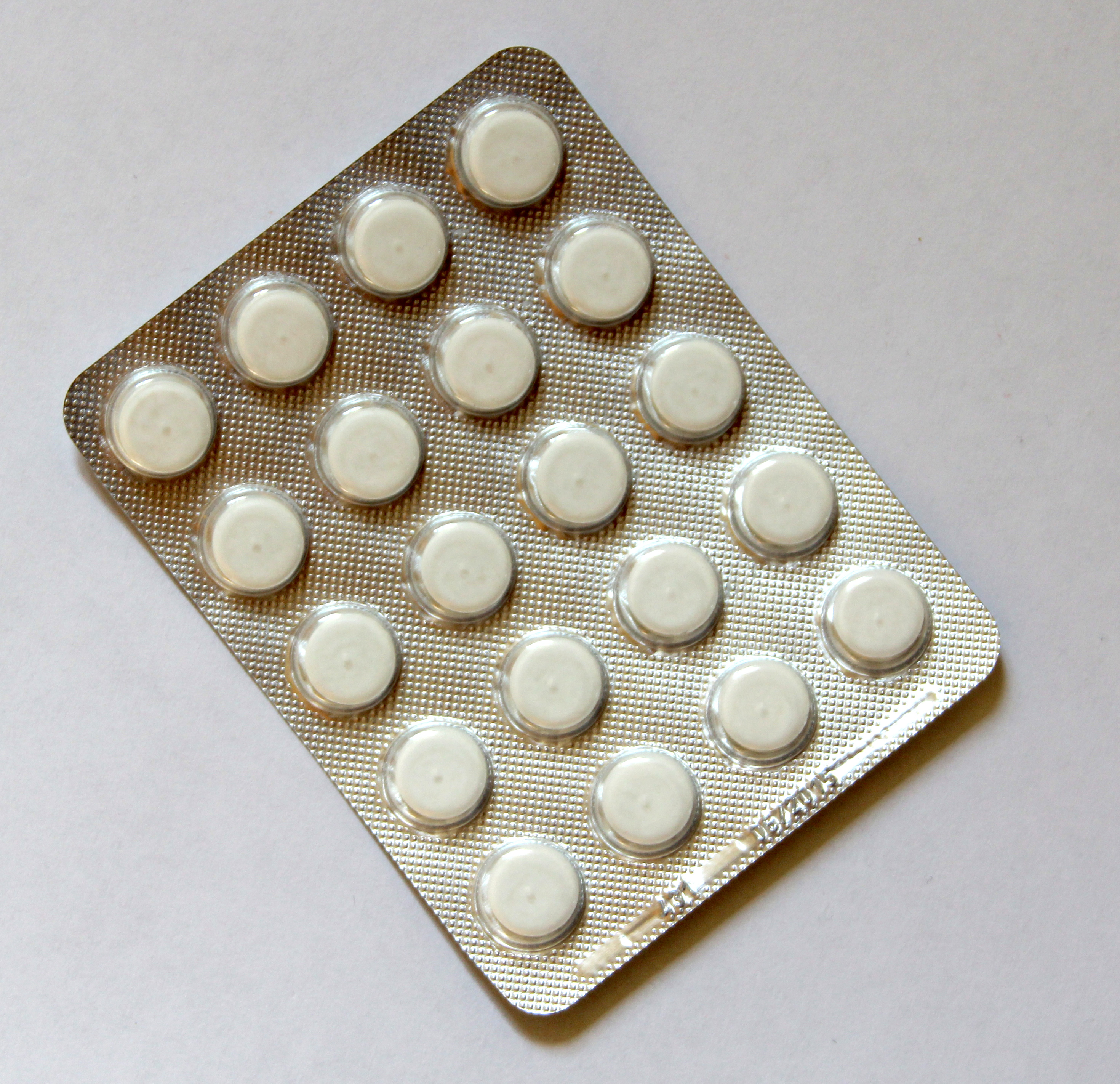 Blister with pills